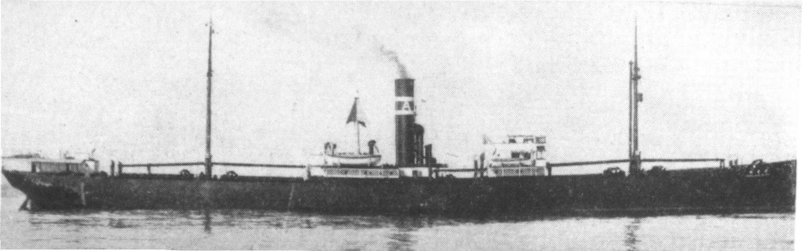 Photo of Brazil Maru, a Kawasaki-built WWI standard ship used as a POW transport by the Japanese in WWII.